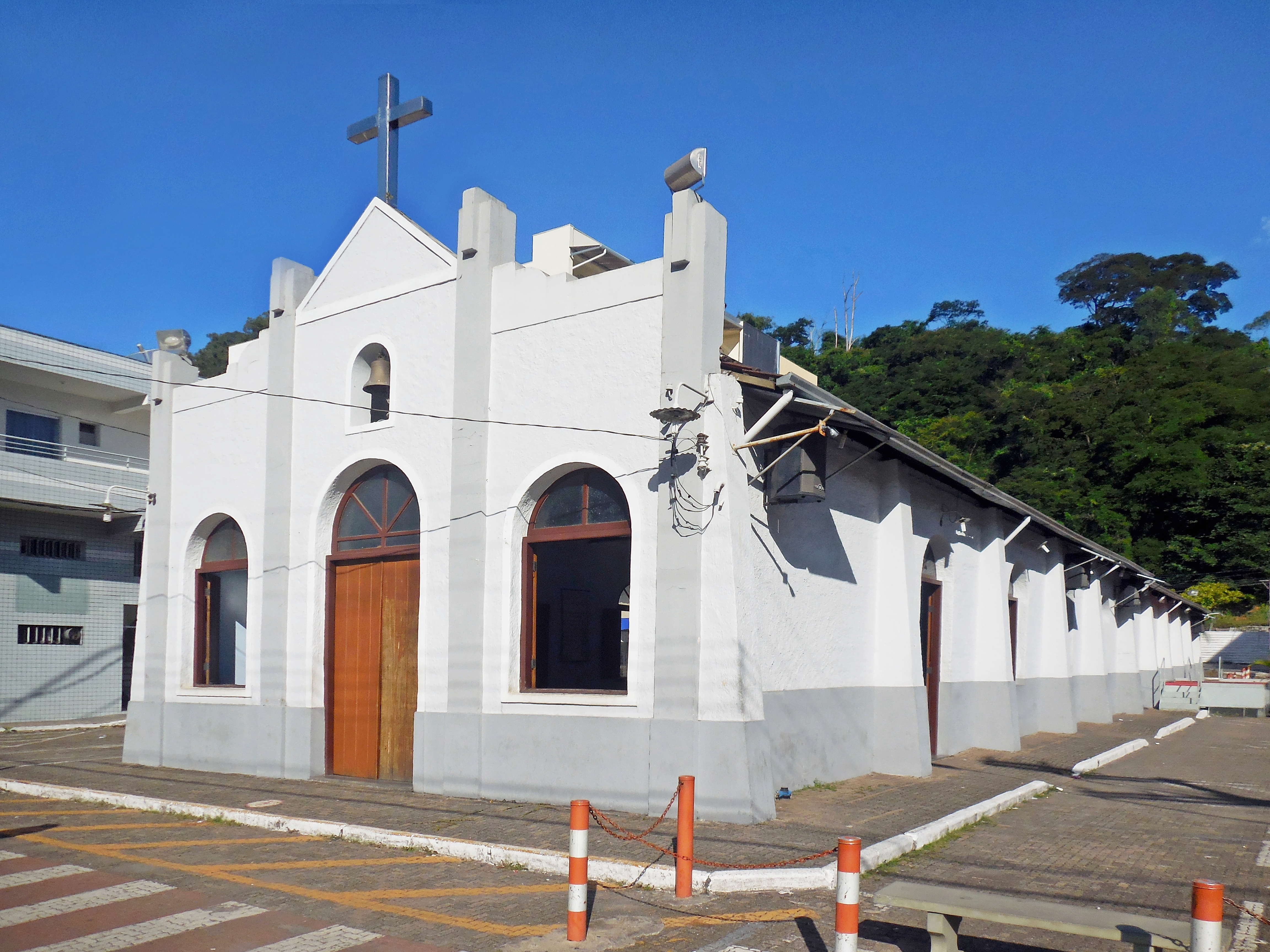 The Saint Joseph the Worker church of Acesita, in Timóteo, Minas Gerais, Brazil.